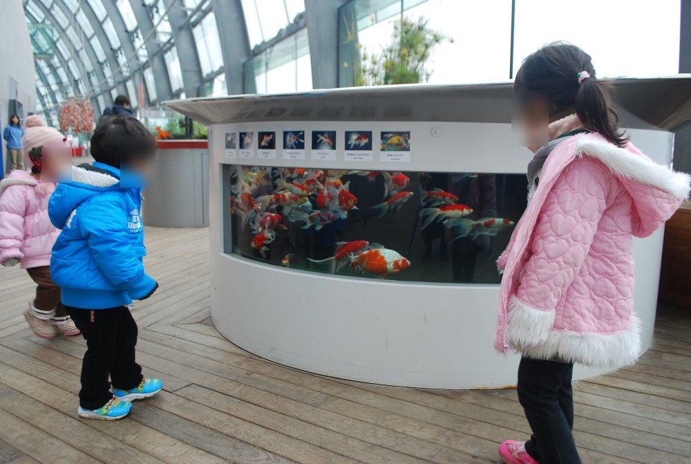 Goldfish aquarium at Aquamarine Fukushima in Iwaki, Japan